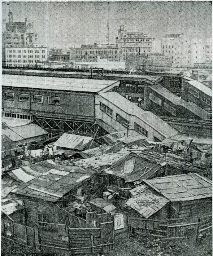 Motomachi Station on Tokaido Main Line in 1953